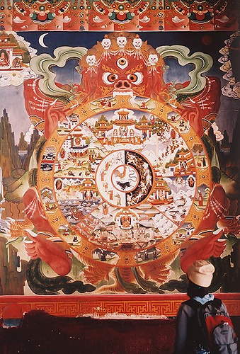 Tawang Monastery Doorway Mandala